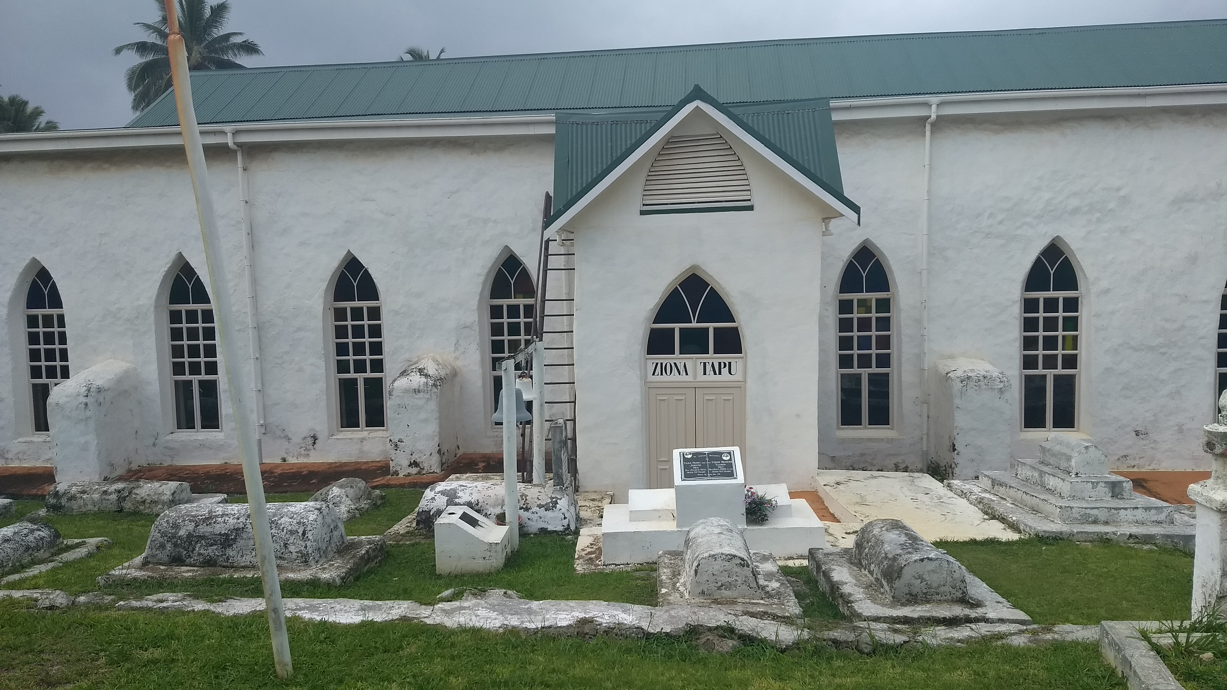 Arutanga Church Cook Islands 1828 Reverend John Williams